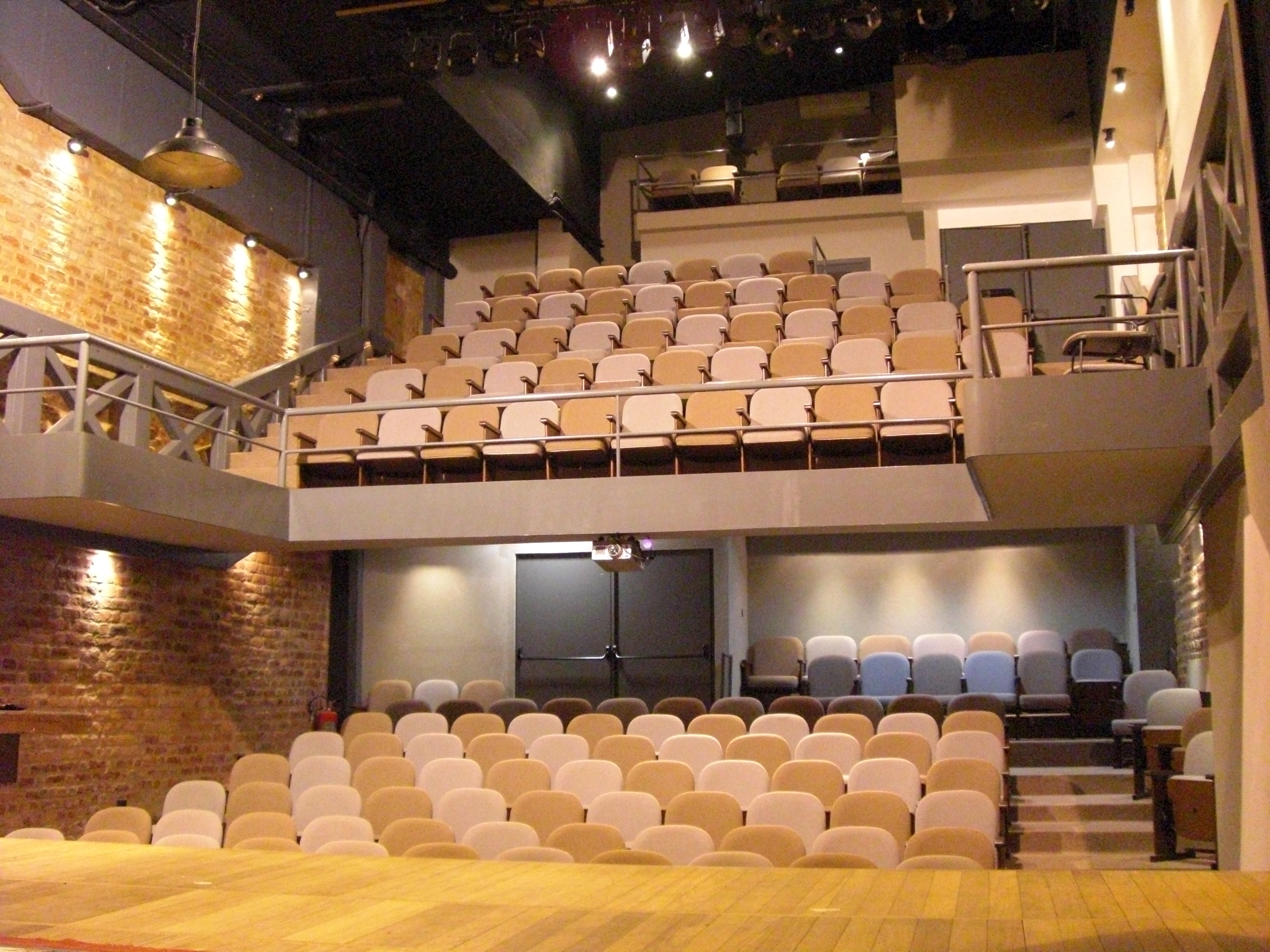 Teatro Solar de Botafogo